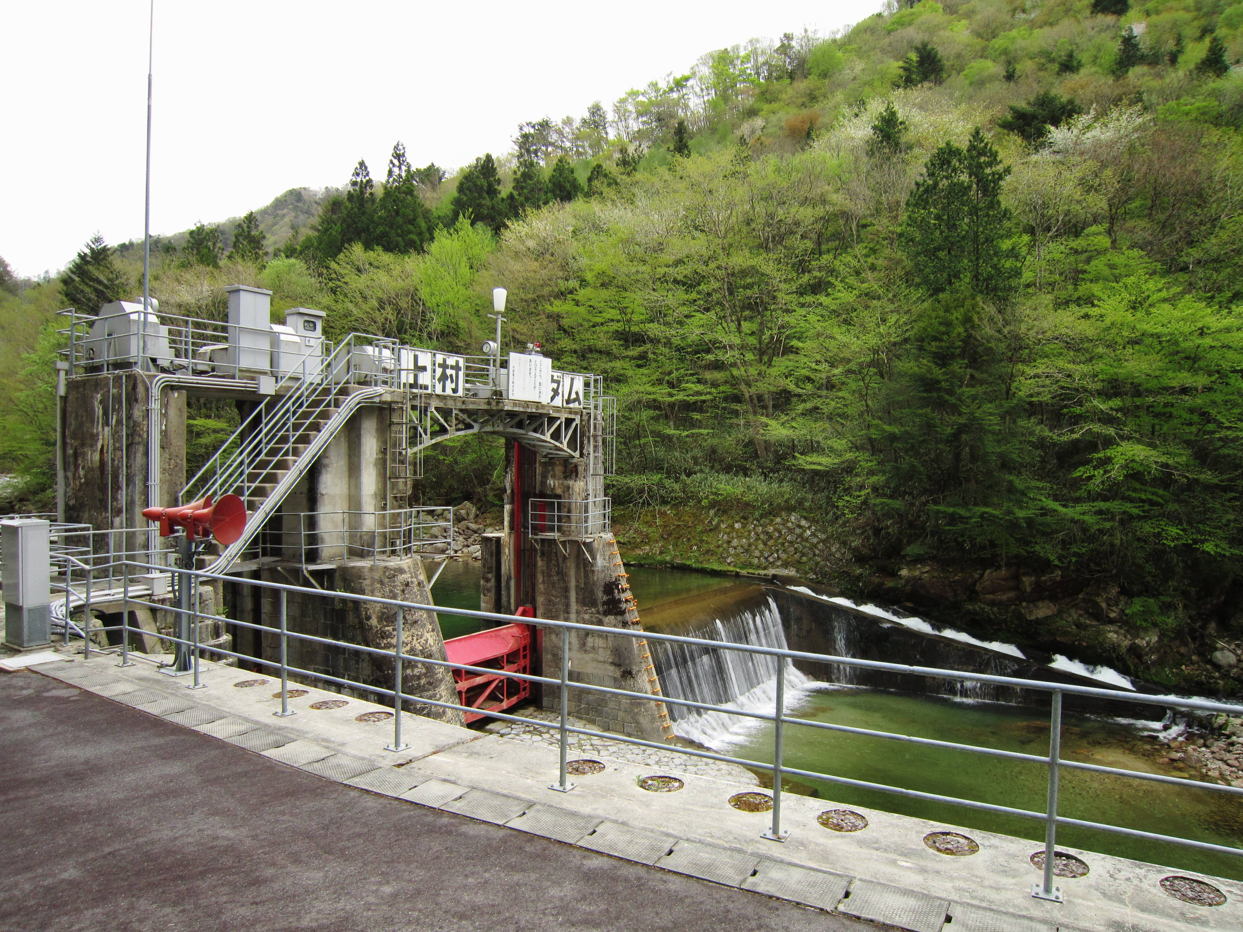 Kamimura power station weir.